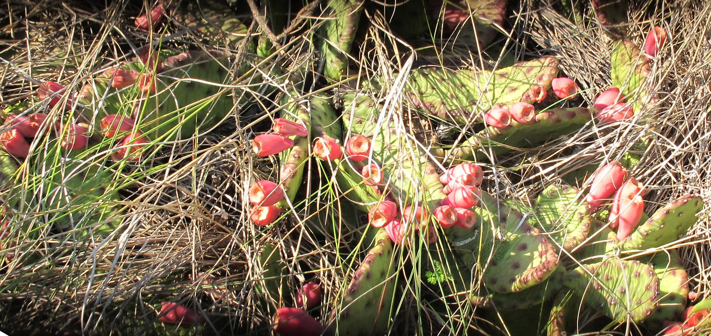 Opuntia humifusa in fruit by the beach at Welwyn Preserve,Glen Cove, Long Island, New York, October 2014